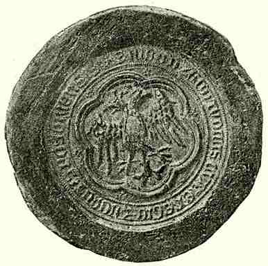 Seal of palatine Nicholas Szécsi. NICOLai. ZECHI. IVDICIS CVRIE. REGIE. ET. COMITIS. POSONIENSIS